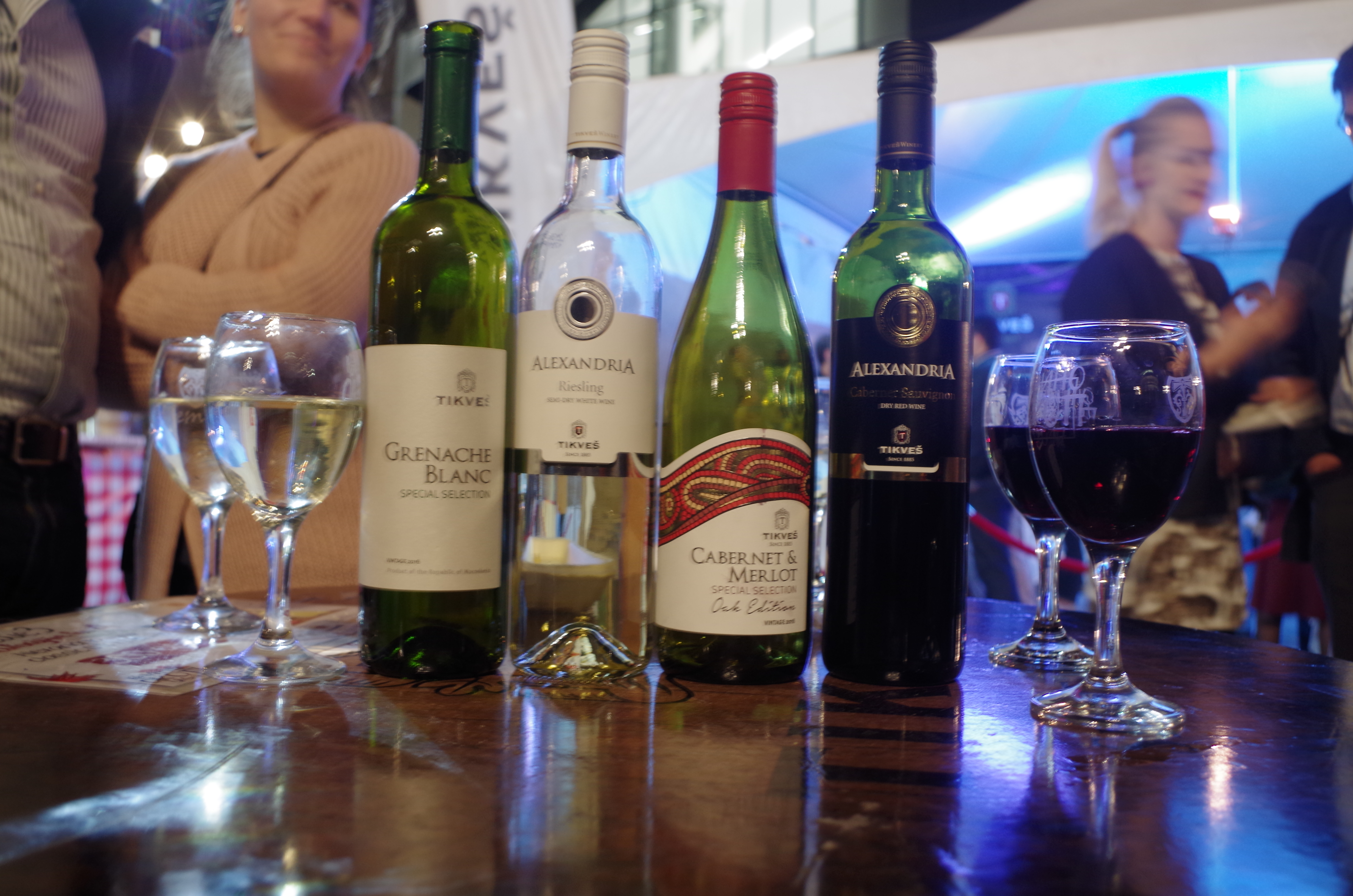 Wines of Tikvesh Winery, Macedonia